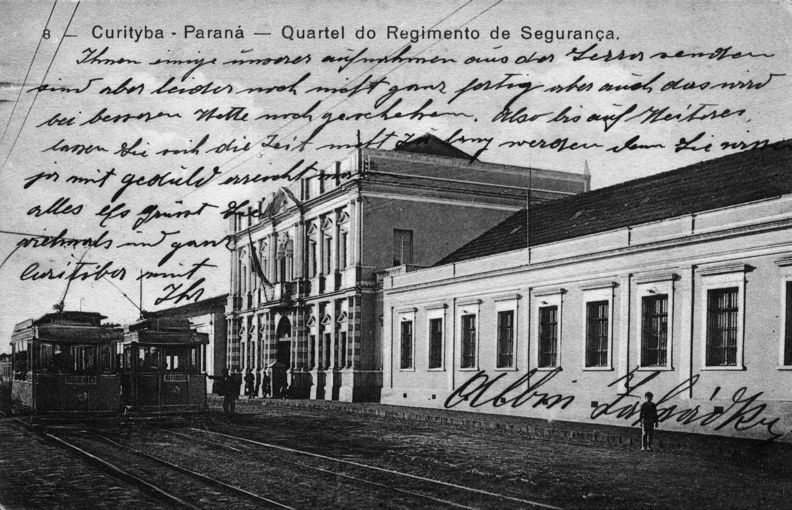 Casern of the Military Police of Parana - Brazil.